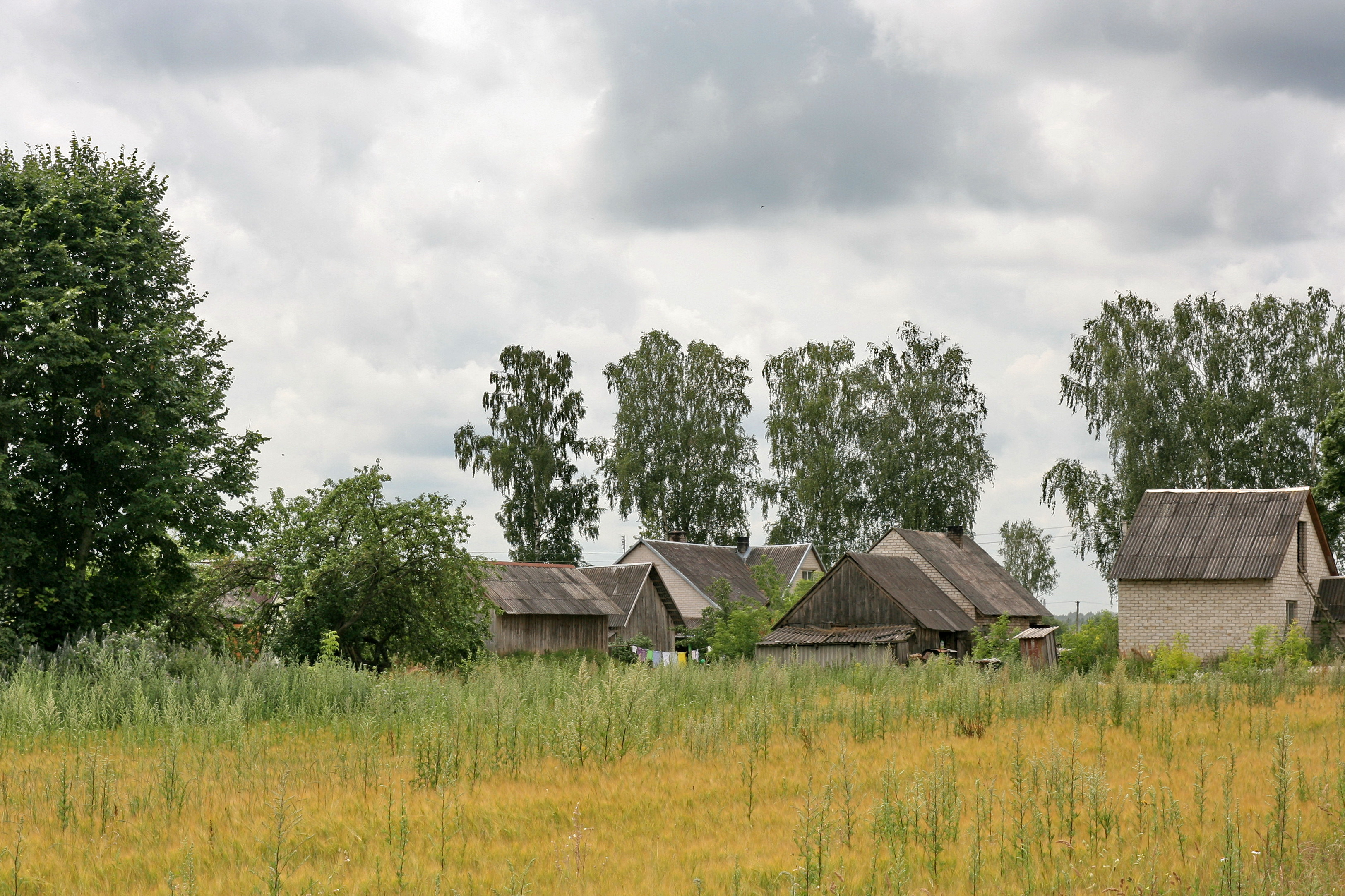 Bečiai village, Lithuania